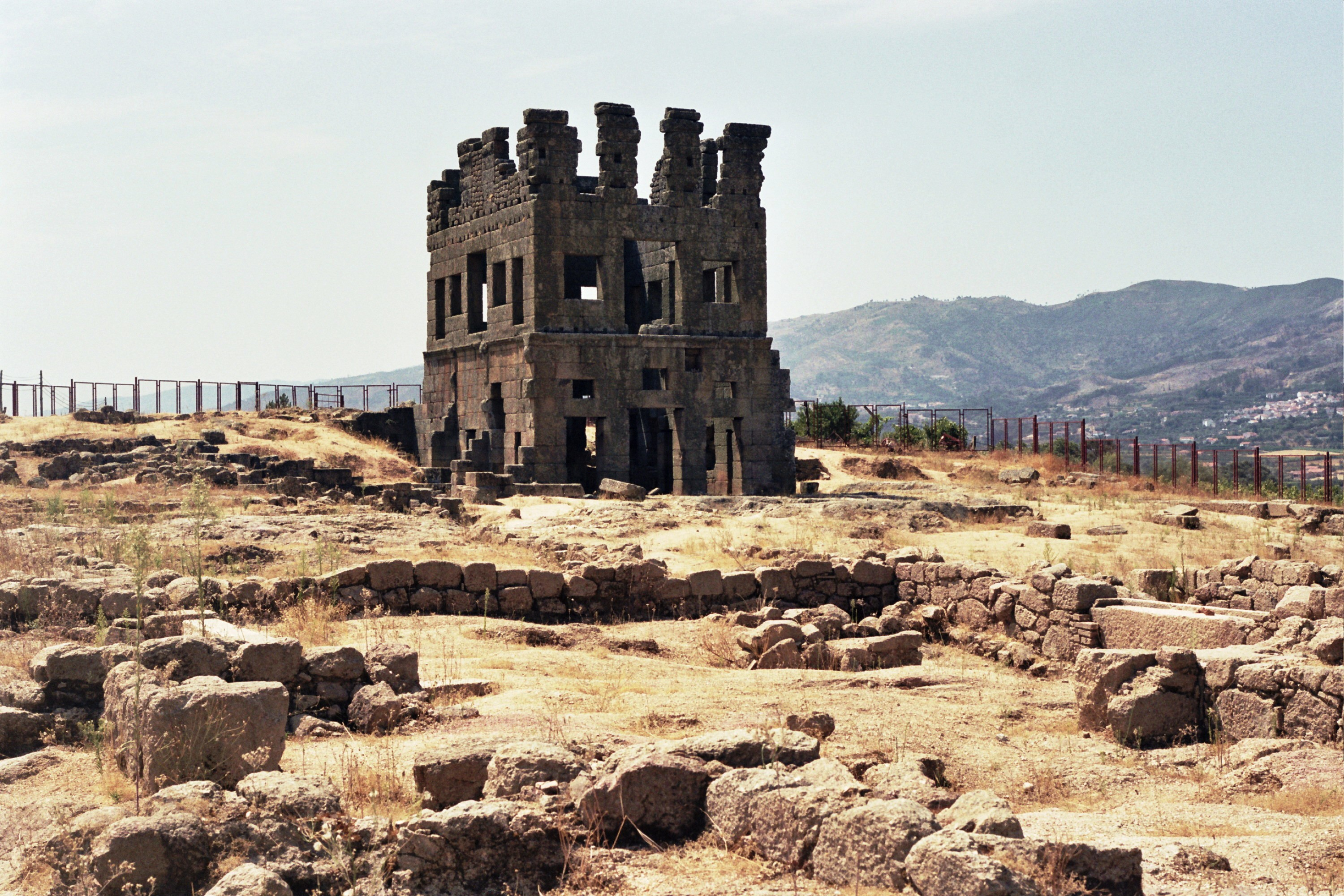 Centum Cellae (Colmeal da Torre), a parish of Belmonte